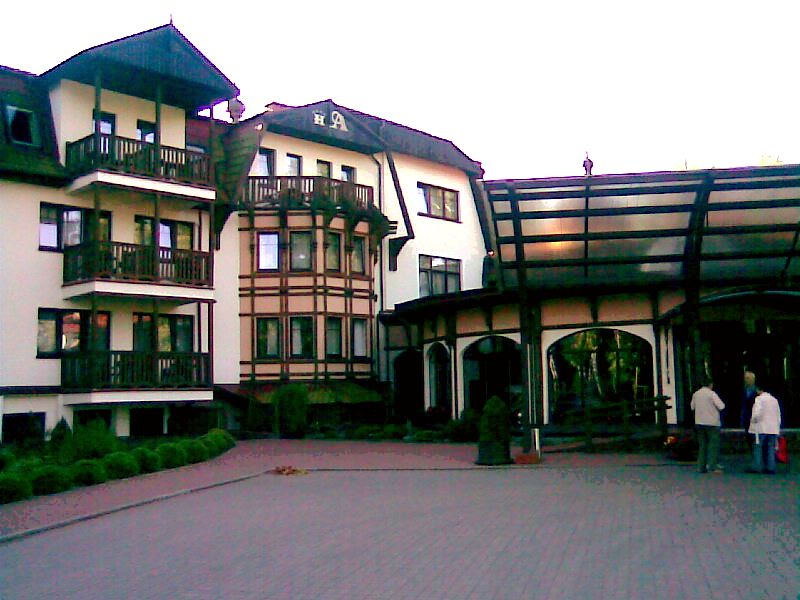 Anders Hotel****, Stare Jabłonki, Poland